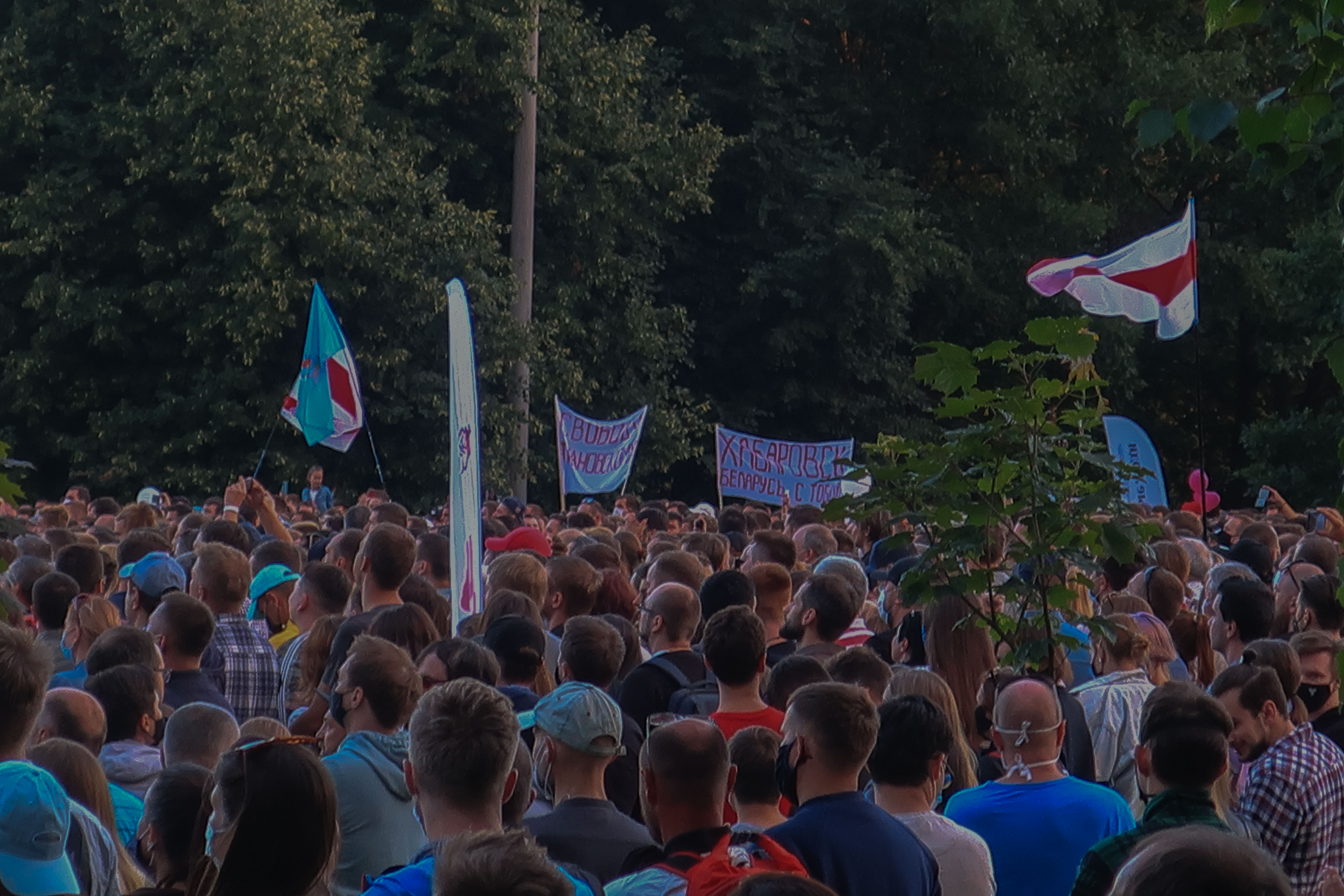 Rally in support of Sviatlana Tsikhanoŭskaya and the joint campaign headquarters. 30 July 2020, Minsk, Belarus